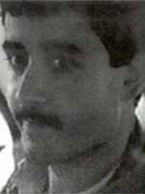 Ali Atwa date taken unknown